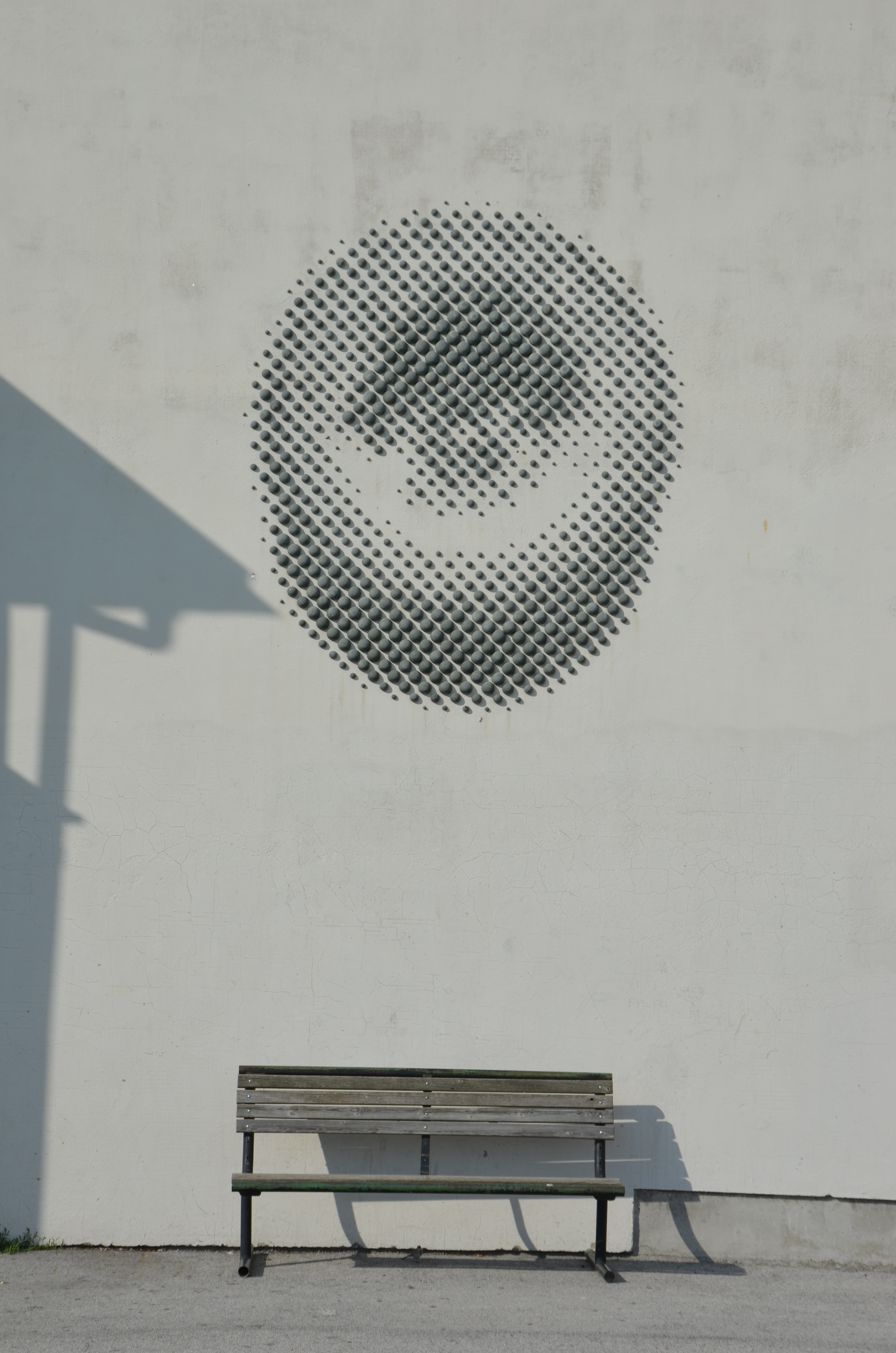 Mårten Medbos Betongraster, Säveskolan i Visby